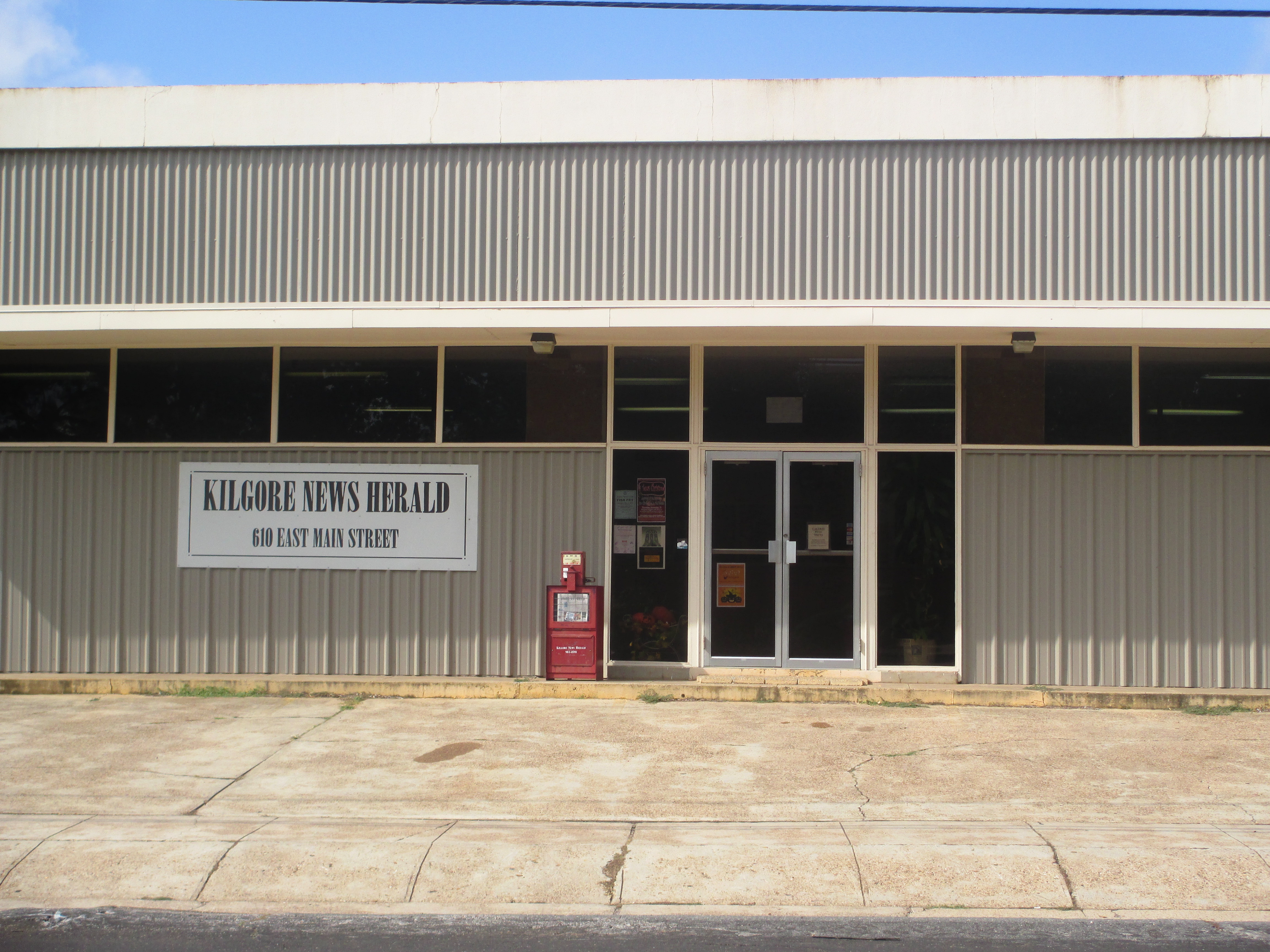 I took photo with Canon camera of Kilgore, TX, newspaper office.